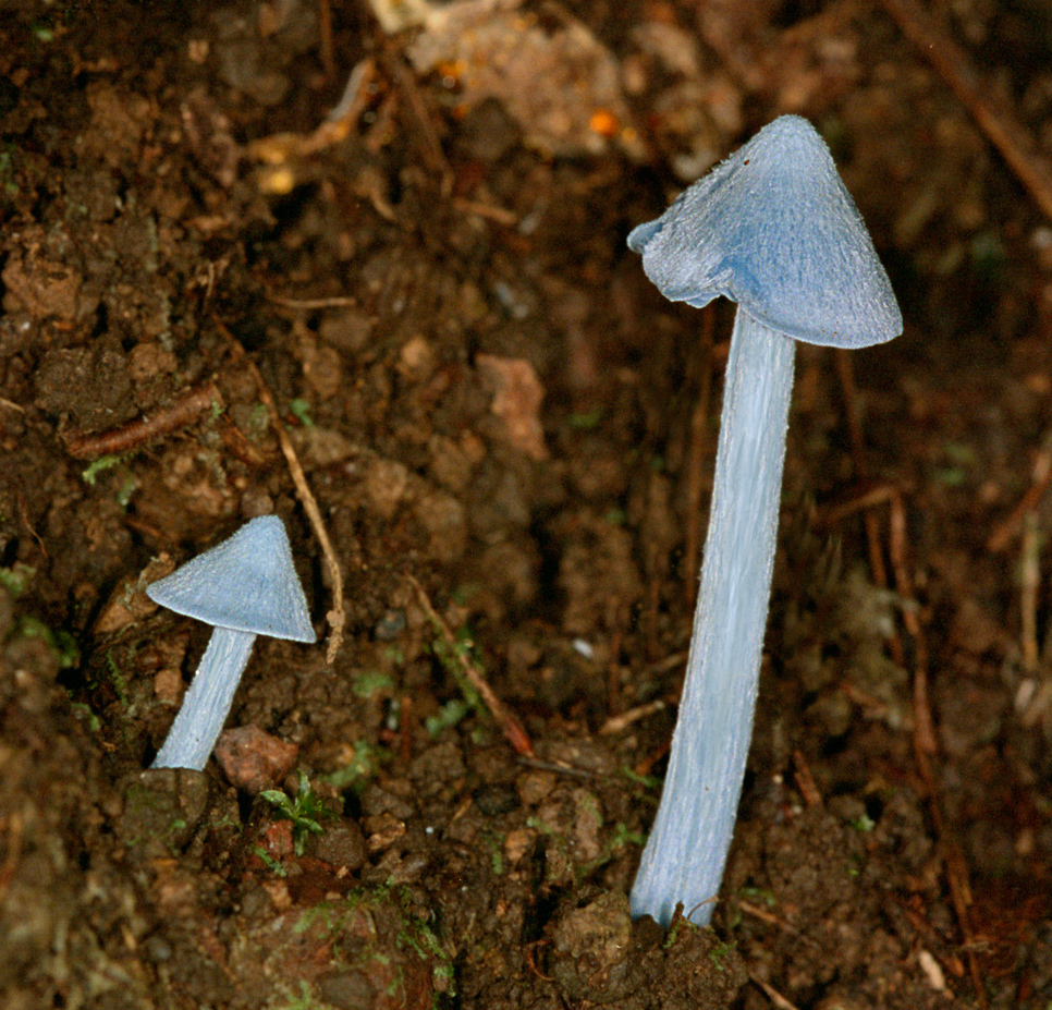 Entoloma hochstetteri Location: Swans Crossing State Forest, New South Wales, Australia Notes: This fungi was photographed at Swans Crossing Forestry reserve. The fungi stands about 70mm in height and is a mature specimen. Aging causes loss of blue colour saturation, and dark spots appear around the edges of the cap and outermost gills. I have not been able to find a record of ths fungi in my Australian references, but Clive shirley has a specimen on his excellent website. It appears to be free from insect attack as far as I have noticed.I have photographed several of these over a period of time, and have noticed that the stem has slowly rotating grooves extending up from the base to the top of the stipe where it meets the cap. I will go through my records for previous images and post them when I locate an image that is worth showing. Clive also agrees with me about the loss of saturation in the fungi with age. I have only found this fungi in single appearances, where Clive has seen them in groups. This may be native to Australia.